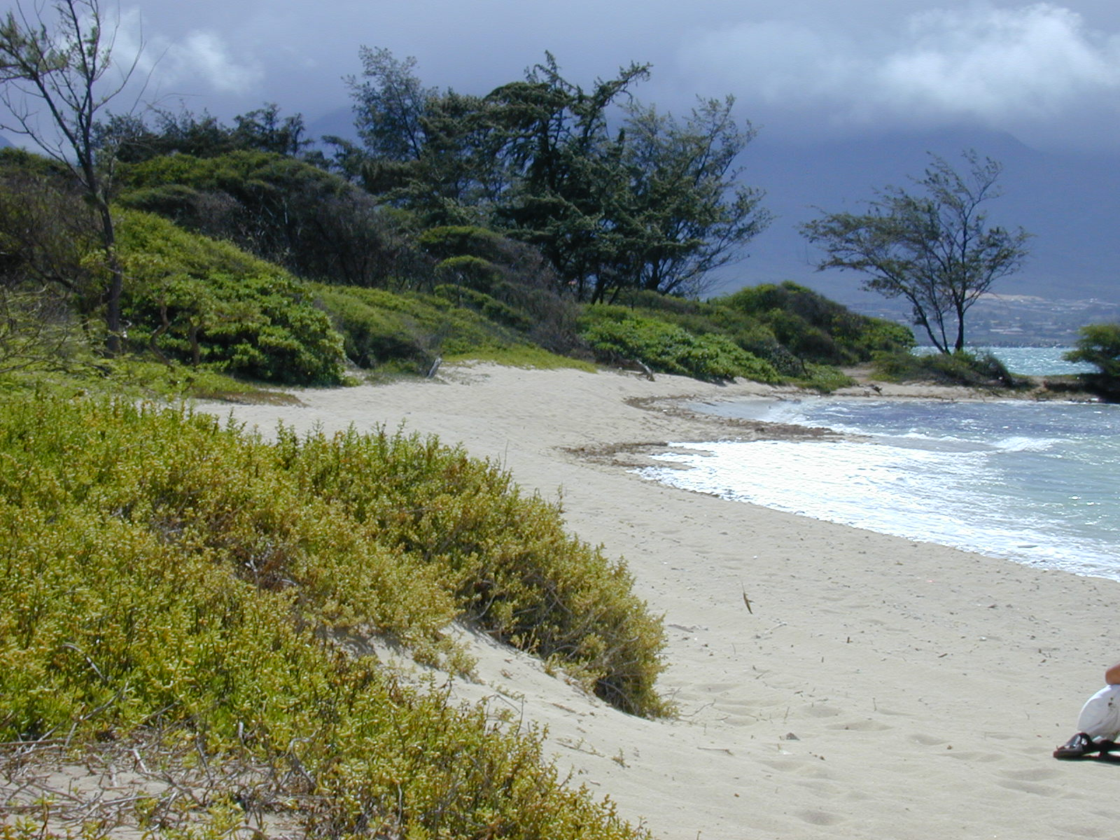 Batis maritima (habit on coast). Location: Maui, Kanaha Beach